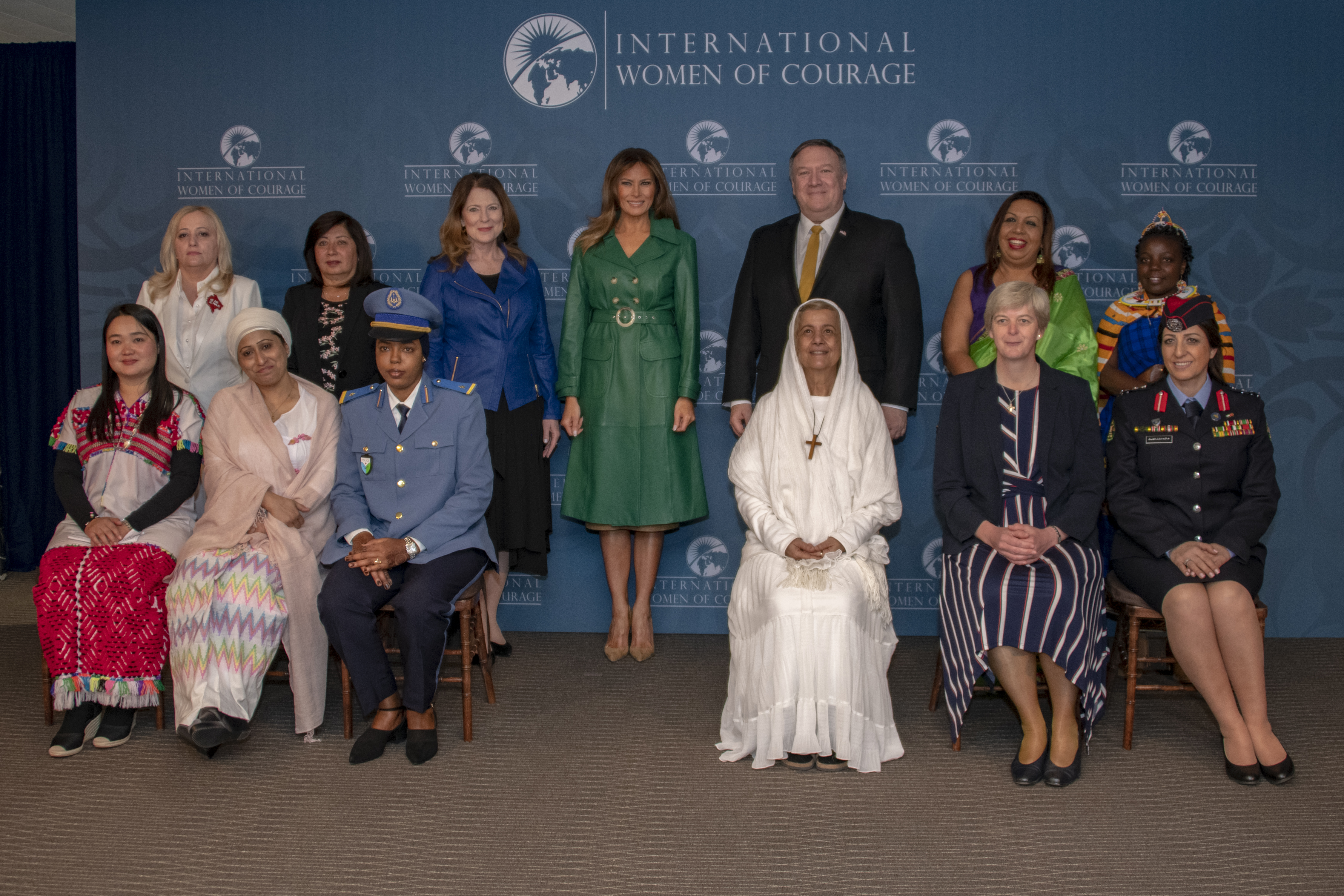 U.S. Secretary of State Michael R. Pompeo and First Lady of the United States Melania Trump poses for a photo with the 2019 International Women of Courage Awardees at the U.S. Department of State in Washington, D.C., on March 7, 2019. [State Department photo by Ron Przysucha/ Public Domain]